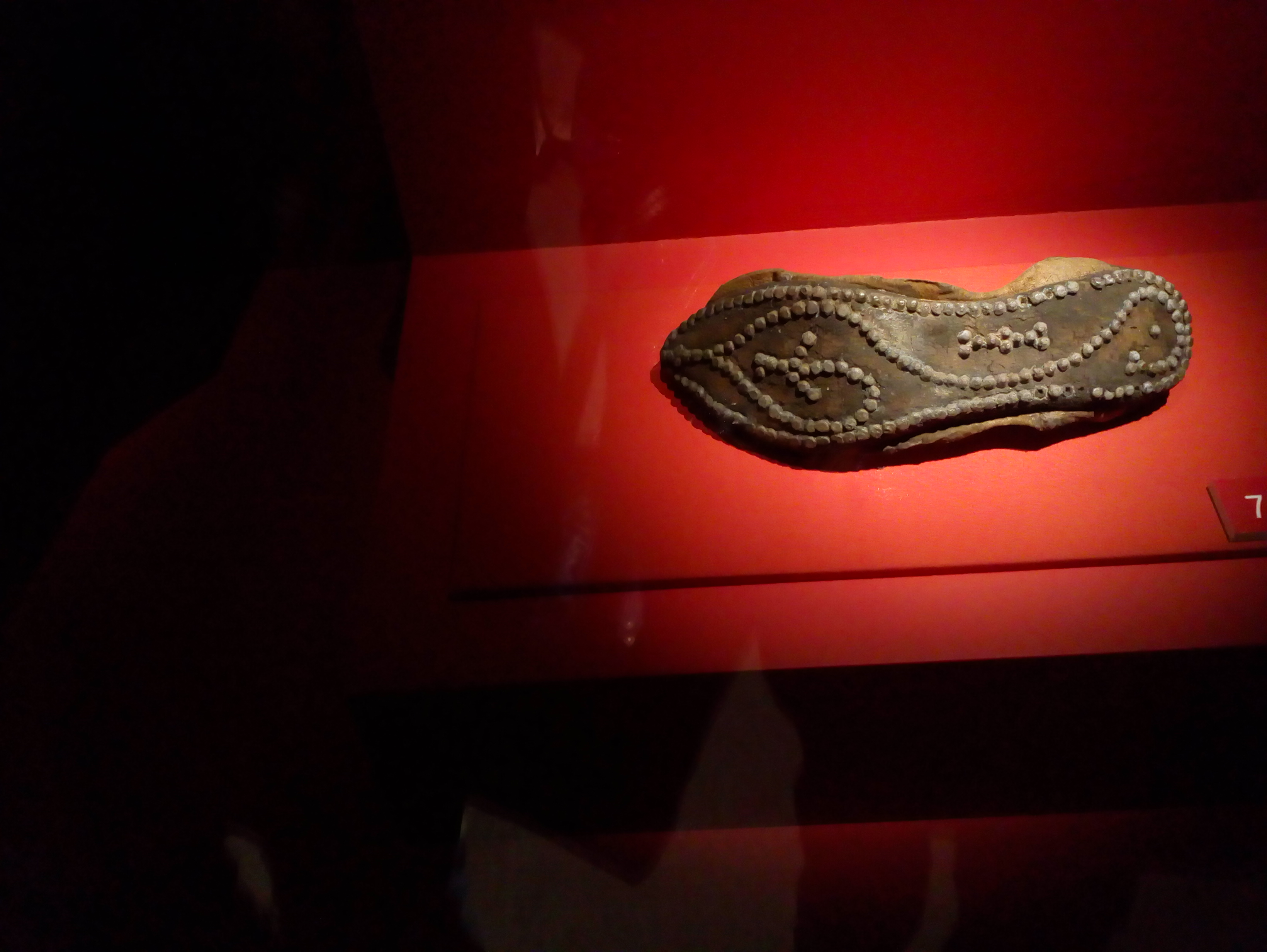 Vindolanda 2017 about 1900 years old